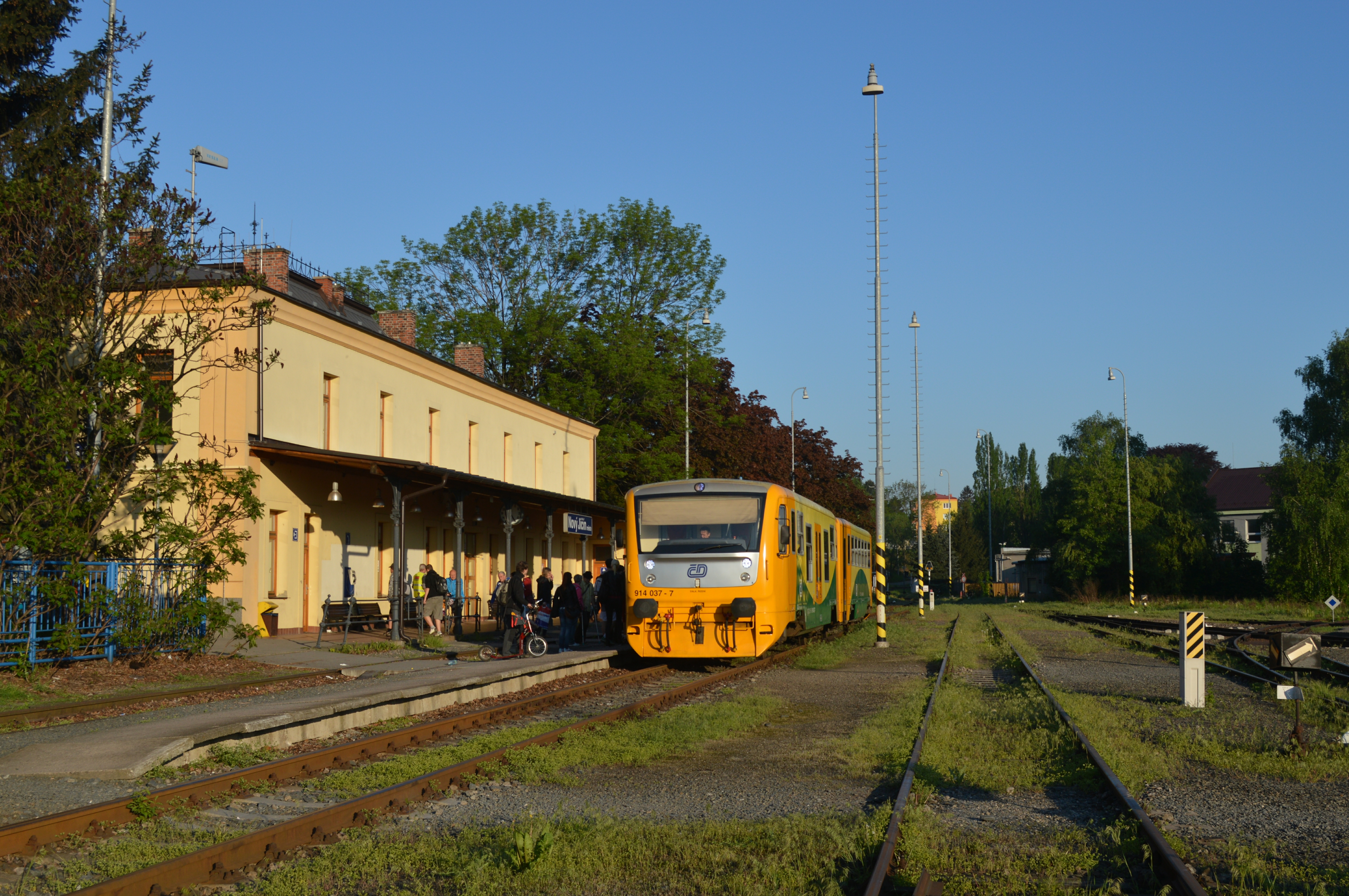 2013 Czech Republic Trip Day Five Morning rush hour in countries such as the Czech Republic is a little earlier than say the UK. The schools and colleges day starts around 07:30-08:00 and finishes lunchtime. Therefore trains are often at their busiest around 06:00. Having spent the night here at Nový Jičín in a hotel directly opposite the station I was in a good position to photograph my first train on the morning of 15 May 2013. 814.037 was assigned to services on the short branch from Suchdol nad Odrou. Train Os13357, 06:28 Nový Jičín město to Suchdol nad Odrou. The picturesque town of Nový Jičín did boast two stations both dead termini on either side of the town centre. The other, Nový Jičín Horní which went through to Hostašovice closed in 2010.